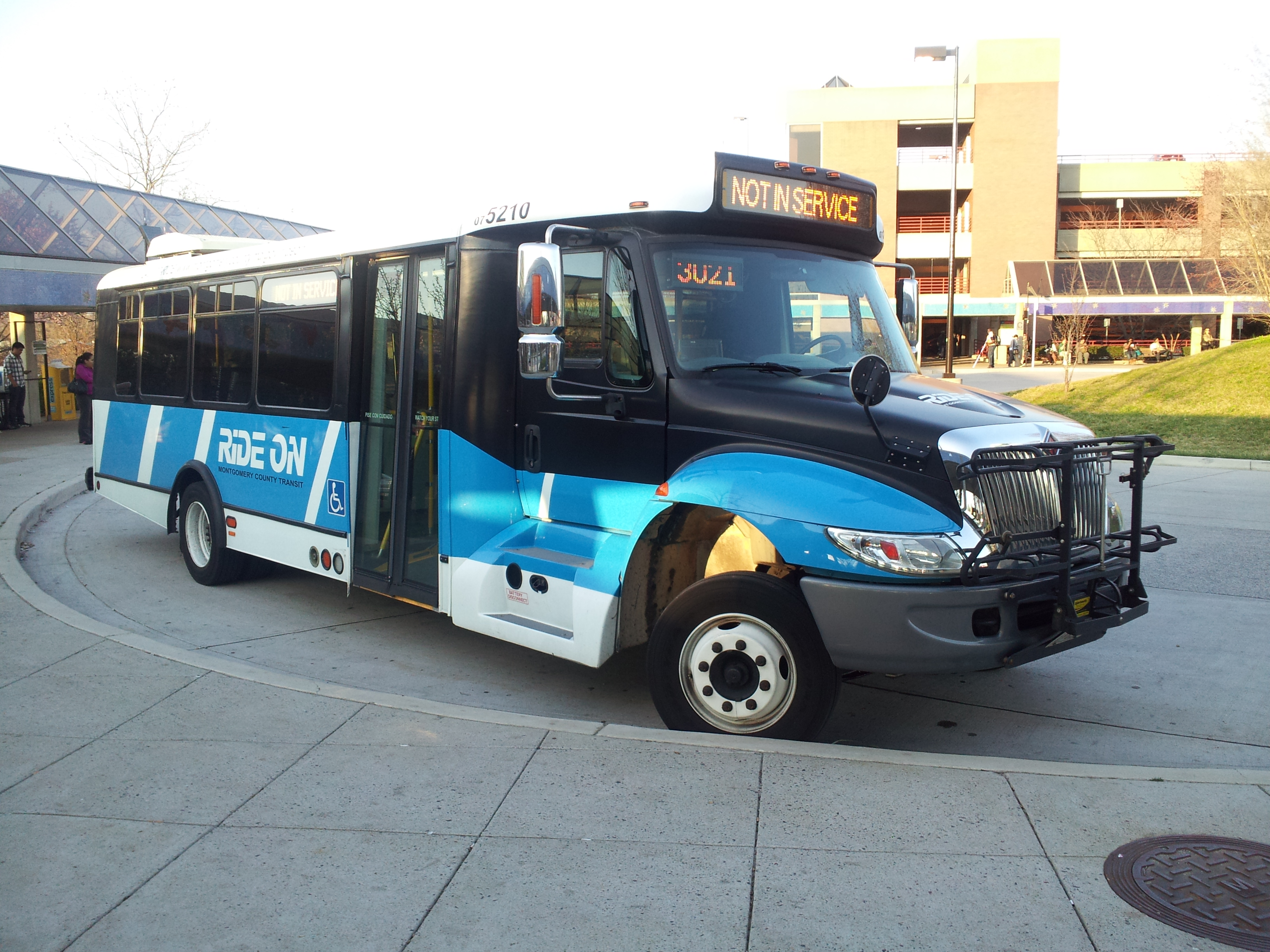 Ride On Champion cutaway van 5210, at Glenmont Metro.